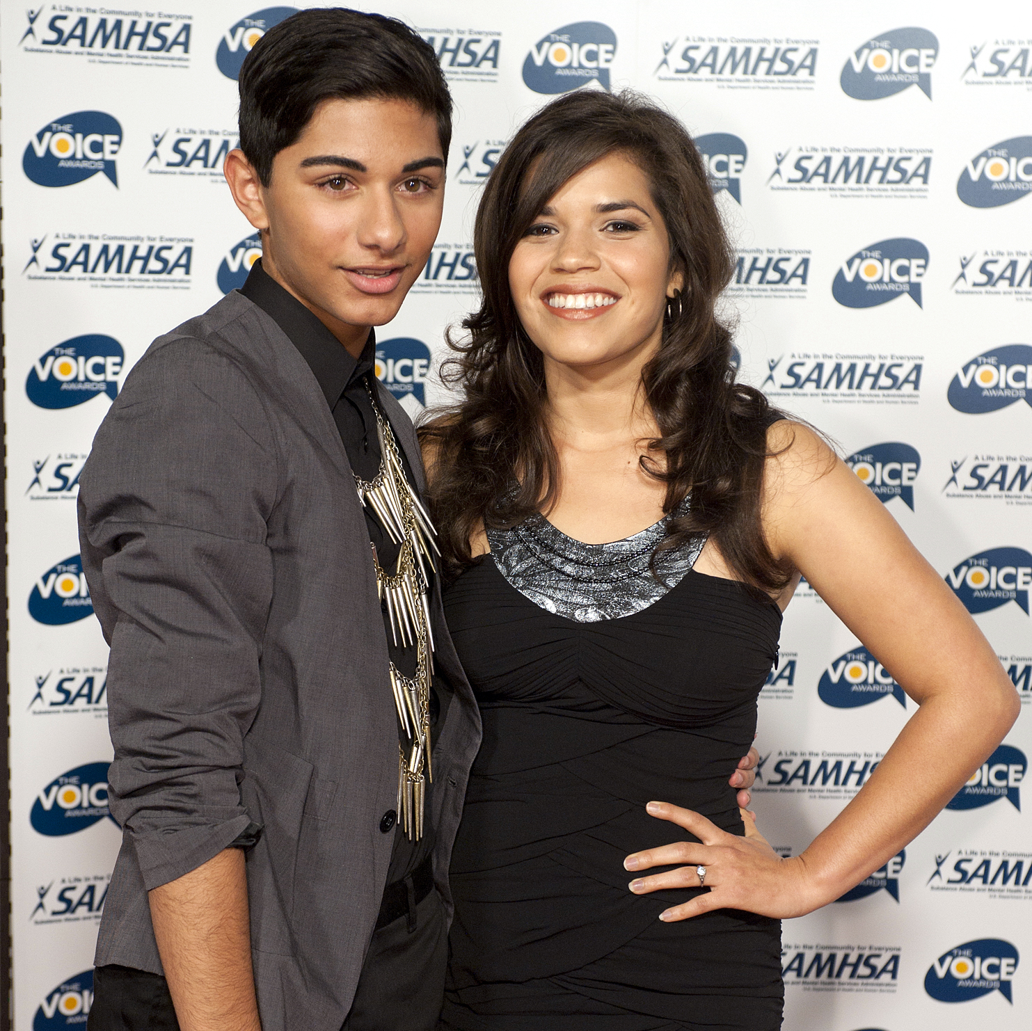 Mark Indelicato & America Ferrera at the 2010 Voice Awards (Paramount Studios, Los Angeles).